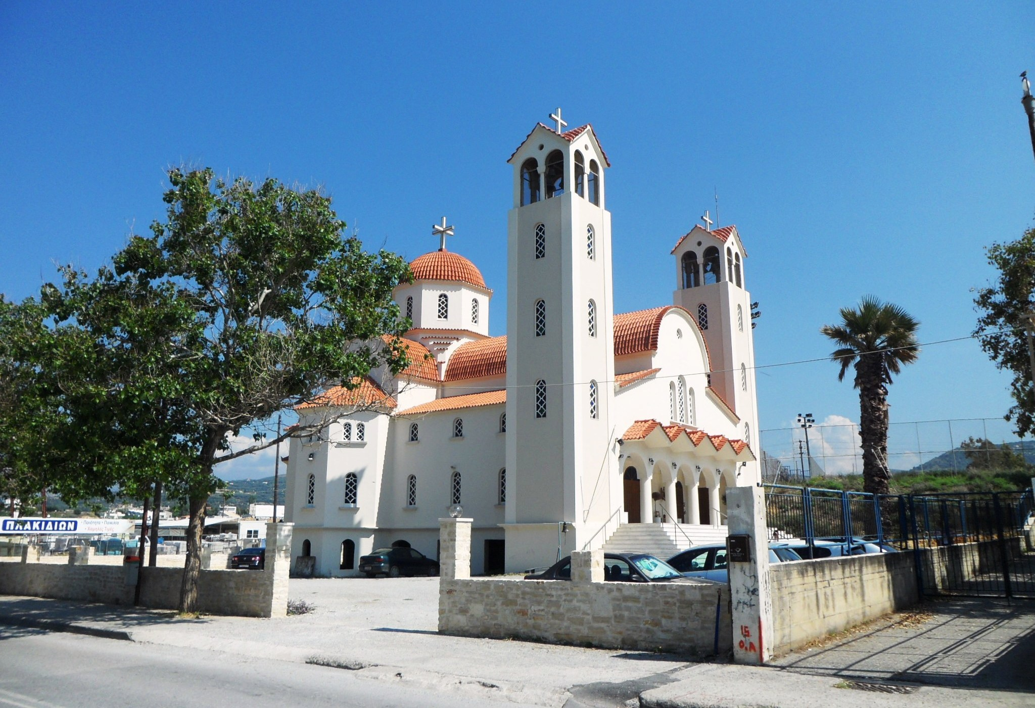 Martyr church, Rethymno, Crete, Greece